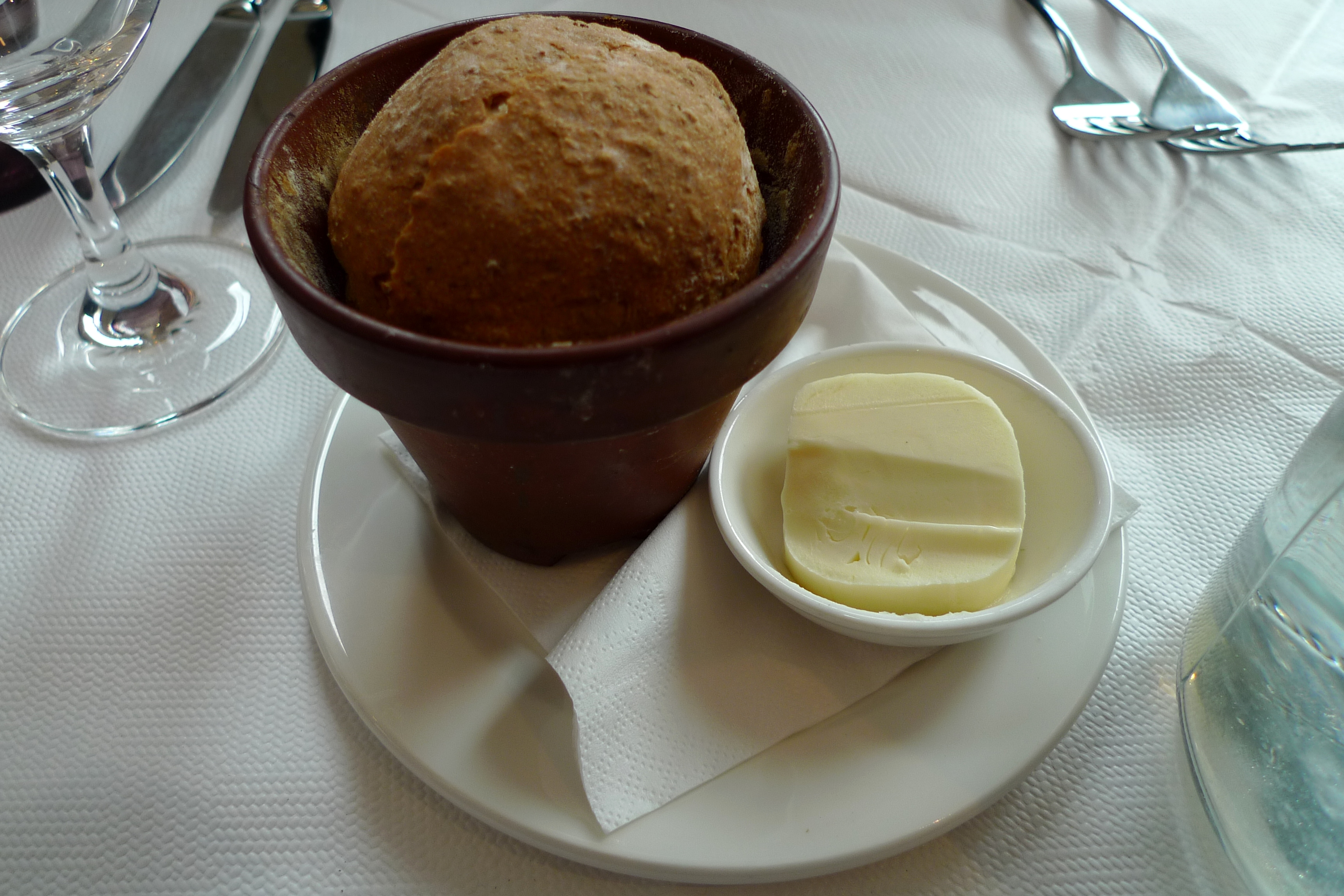 Complimentary bread to start, stylishly presented in a flower pot. At Bistrot Bruno Loubet, St Johns Square.